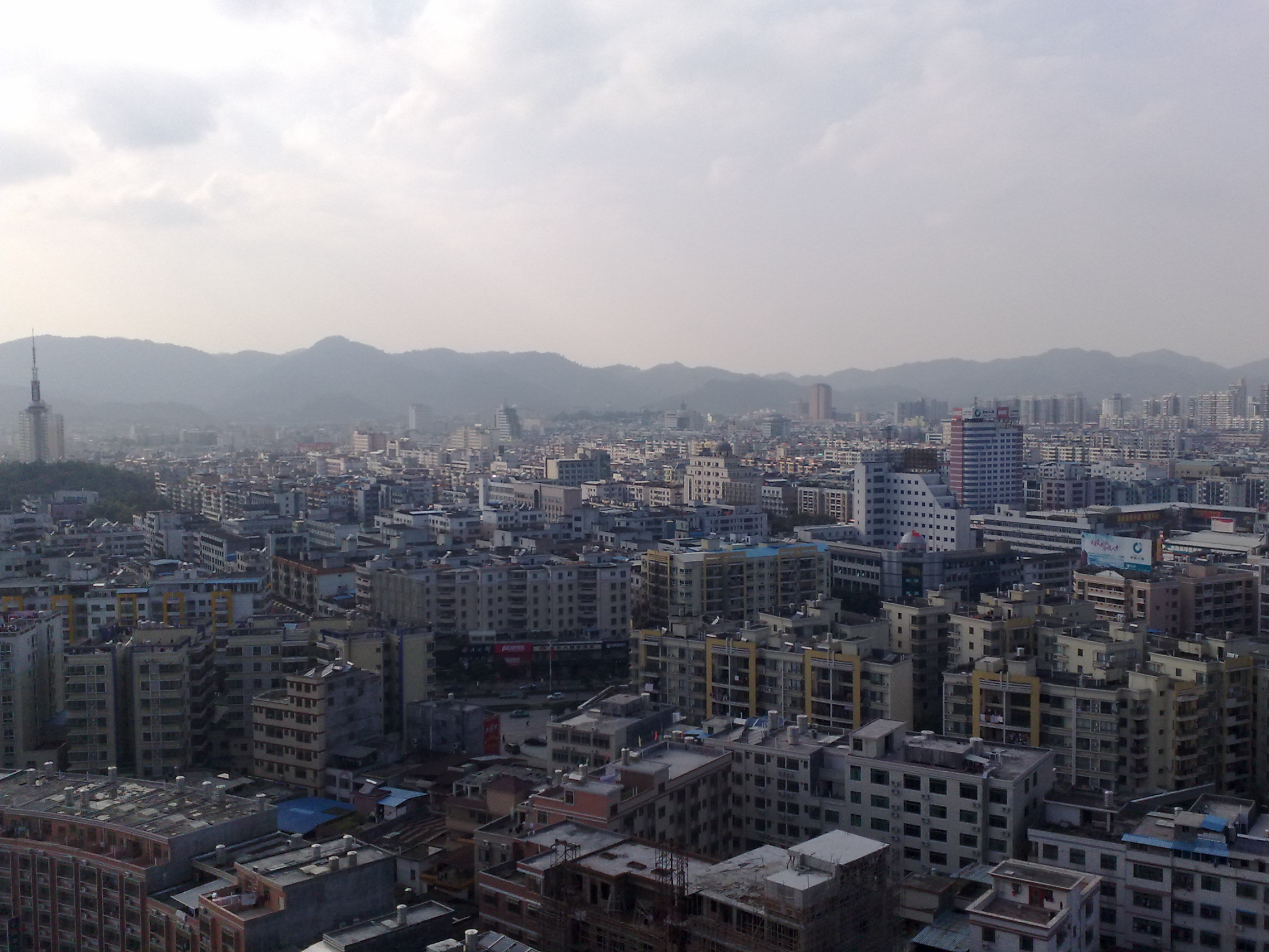 This is the scenery of the North Yuancheng.